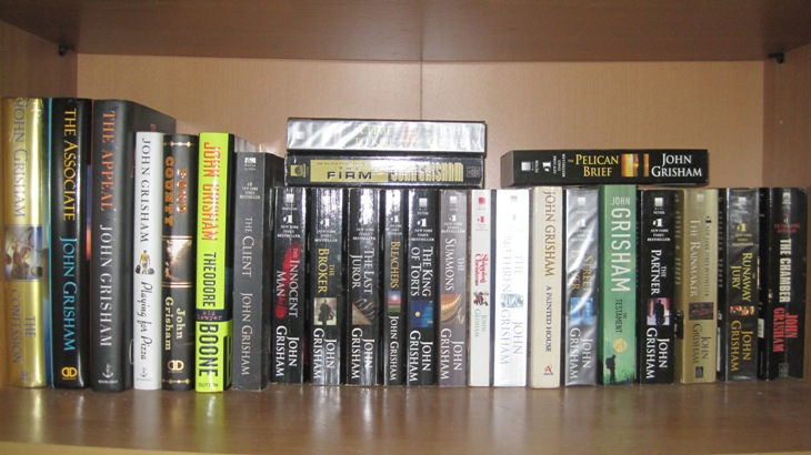 complete collection of John Grisham fiction and non fiction books as of November 2010